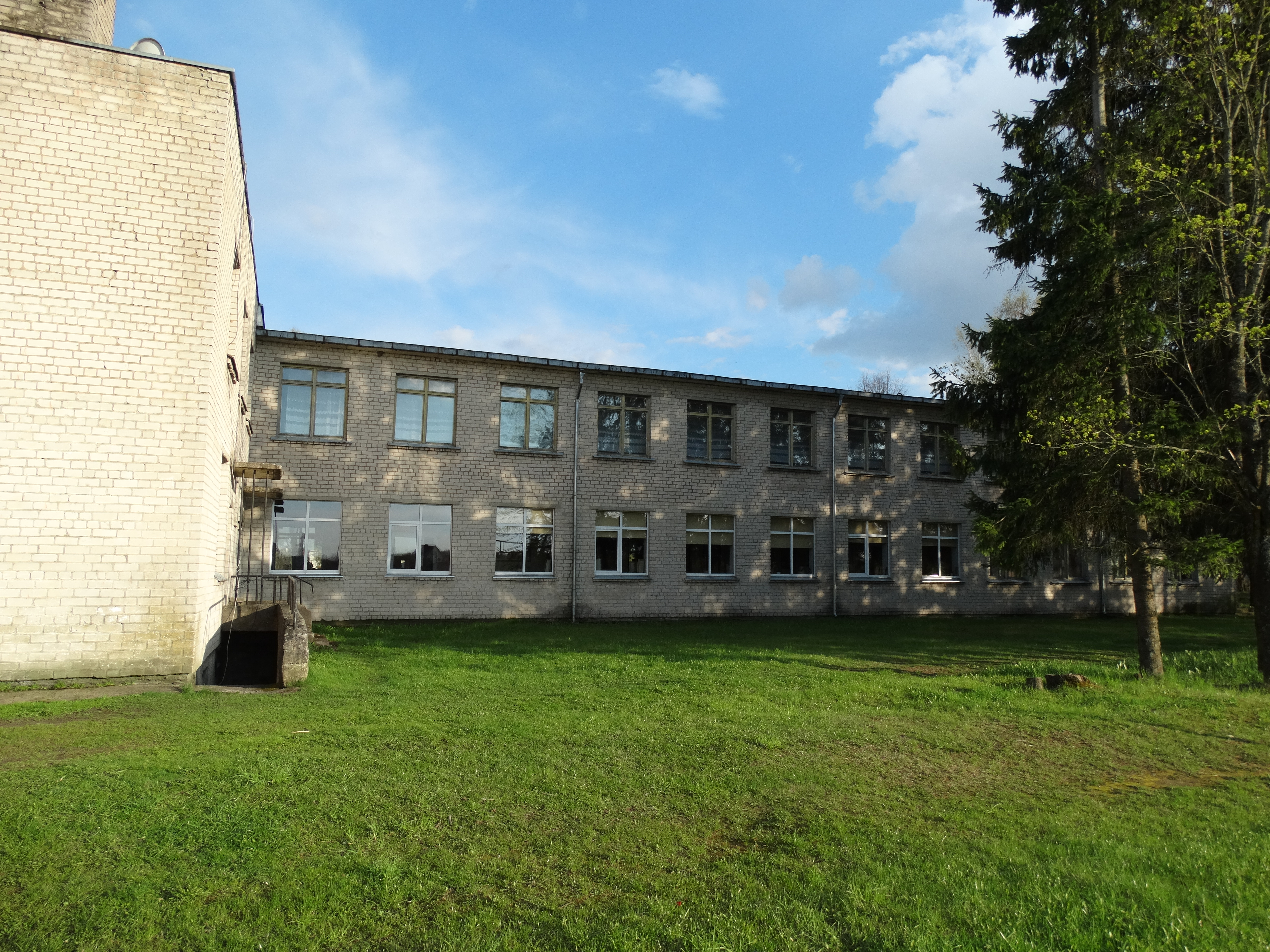 School–multifunction centre, Tabariškės, Šalčininkai District, Lithuania